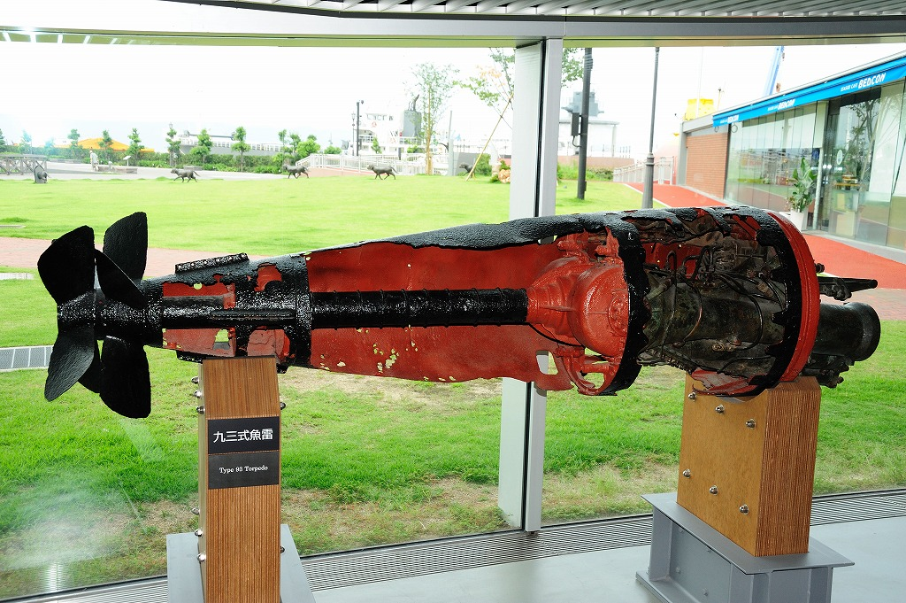 japanese Type 93 torpedo at yamato museum kure hiroshima japan